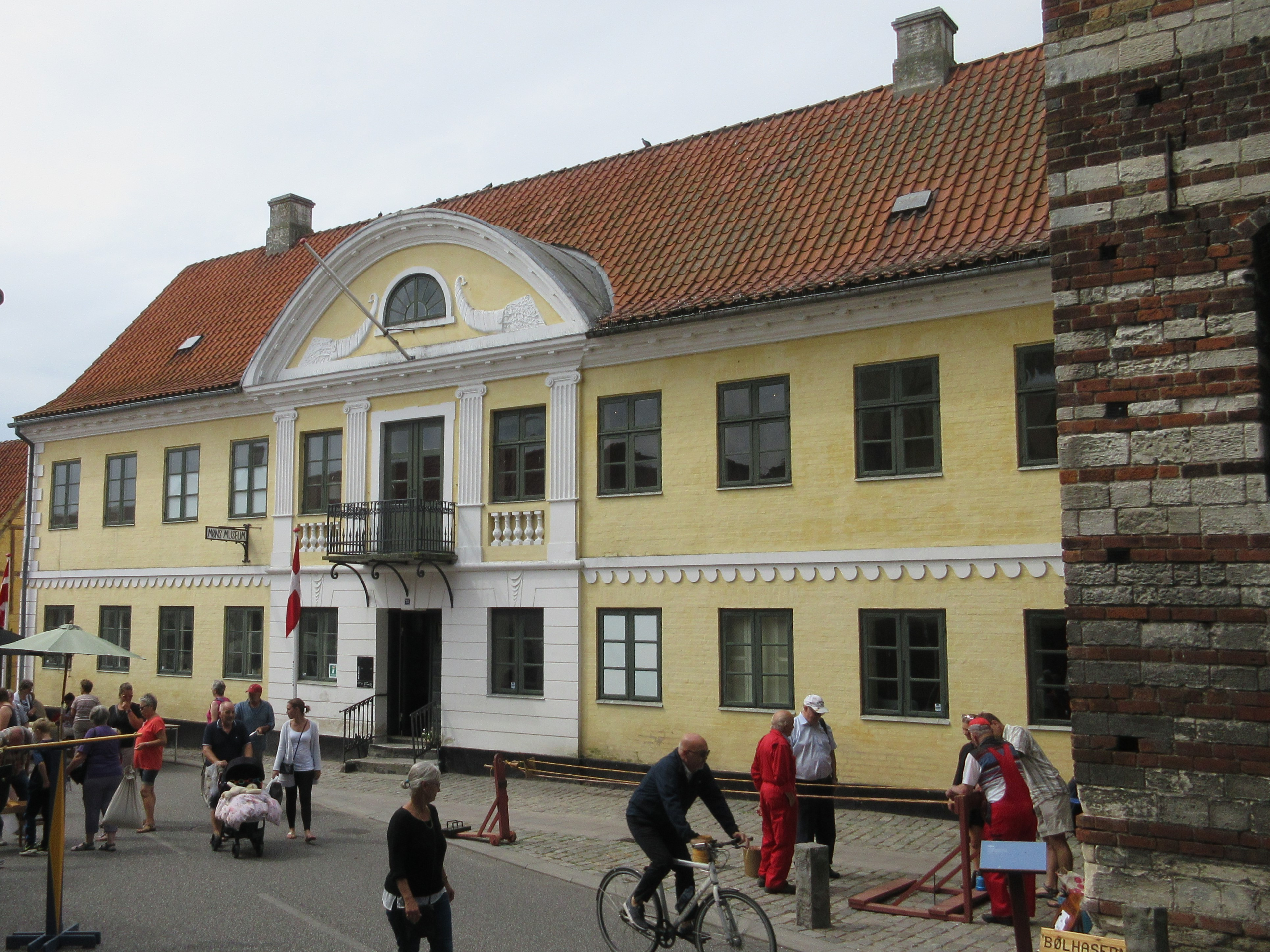 Møns Museum in Stege, Denmark